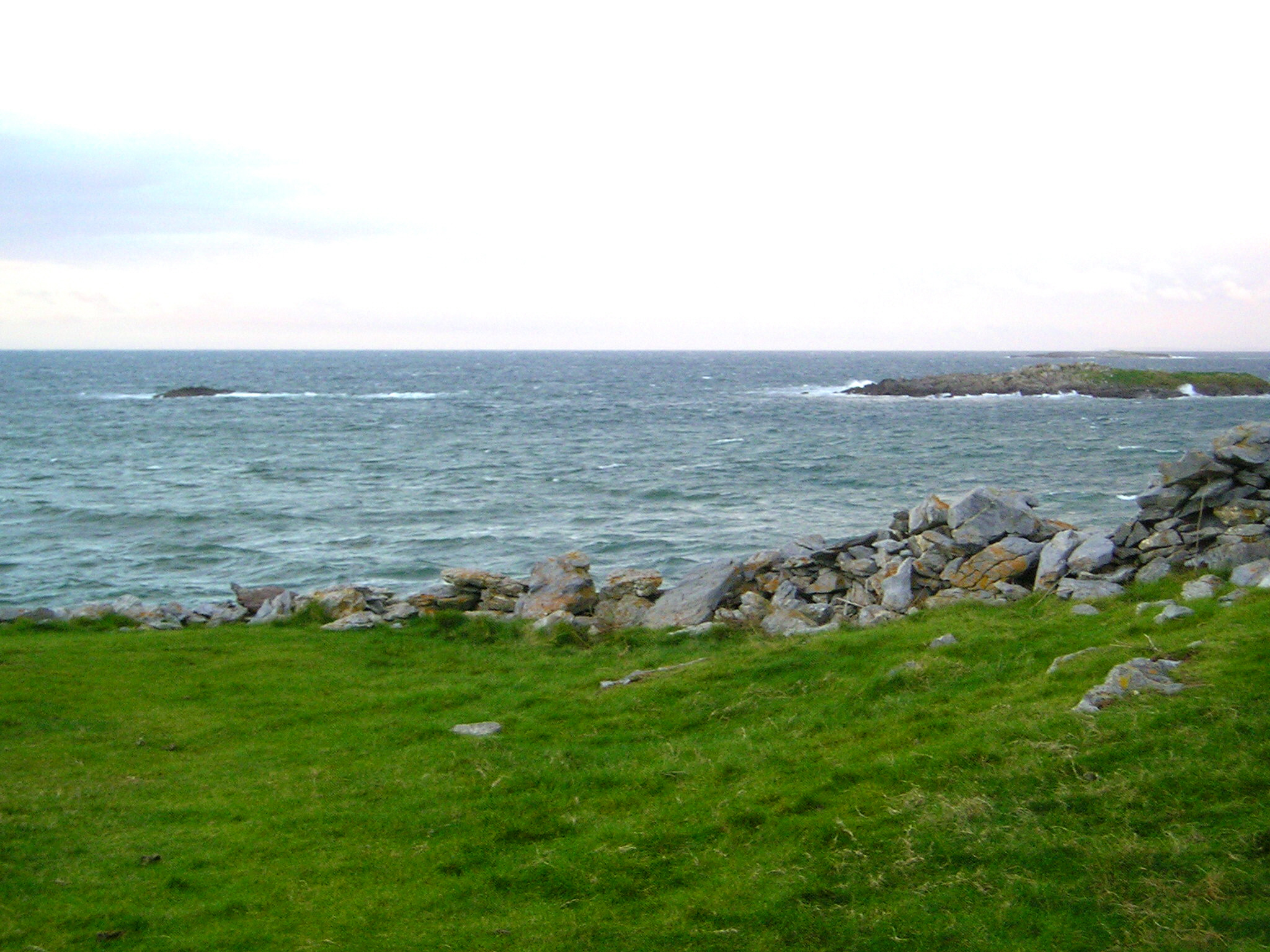 Some of the Magharee Islands in 2004